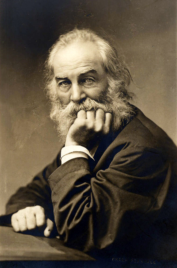 Photo of American poet Walt Whitman. Caption reads: "Whitman at about fifty." Scanned from A Life of Walt Whitman by Henry Bryan Binns. Published by Methuen & Co., 1905.